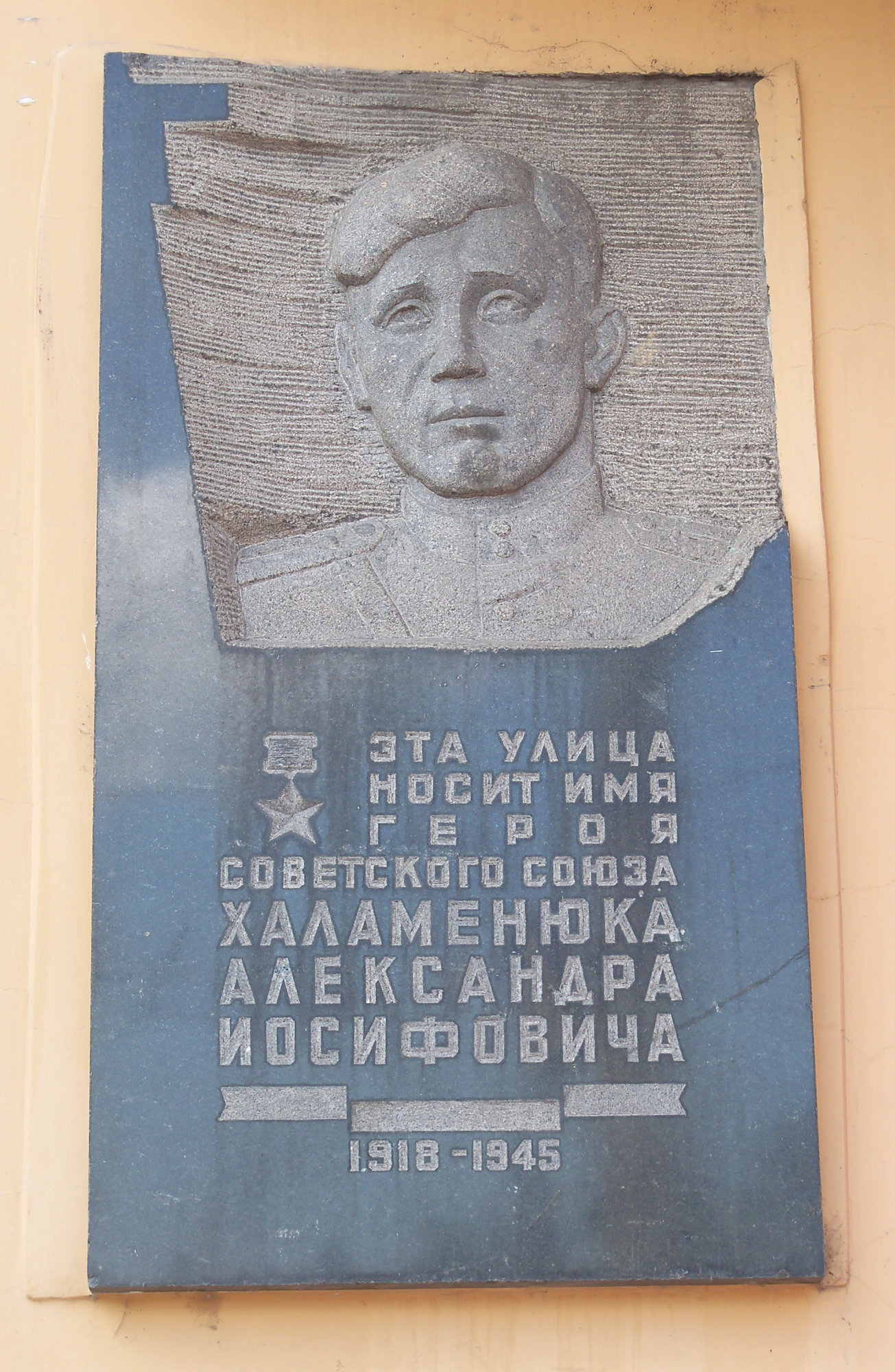 O. Y. Khalamenyuk commemorative plaque in Kremenchuk